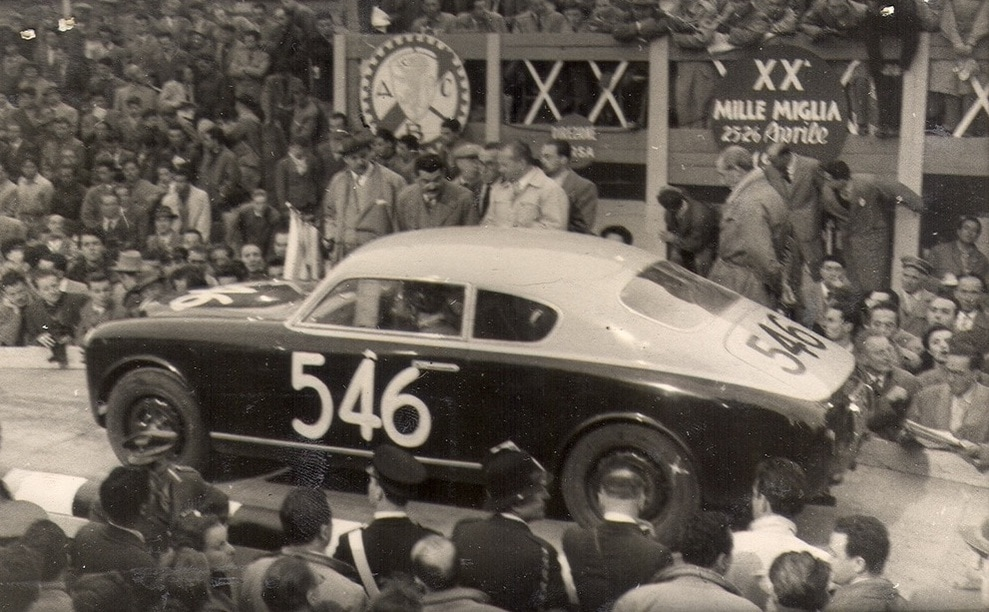 Enrico Anselmi and Luigi Maggio starting the 1953 Mille Miglia in Lancia Aurelia B20 (third series), entry #547 ended in 7th place overall.[1] About these racing cars: "In early 1953 the factory prepared a second group of race cars, based on the third series B20. Steel production bodies were equipped with improvements, such as light weight sliding Perspex windows, flush door handles, special bucket seats, air scoop for ventilation, a revised fuel tank, better front brake venting, and two spare wheels. Long cables ran from the driver to the rear shocks for modifying shock settings while driving. With aluminum trunk and hood, weight was down 75 pounds from the production cars, but more notably, the cars featured the new GT 2500 motor, now with three twin-barrel Solexes, arranged in a “skewed” layout to fit on a factory manifold. Registered in March 1953, their first outing was at the Giro di Sicilia in April."[2]